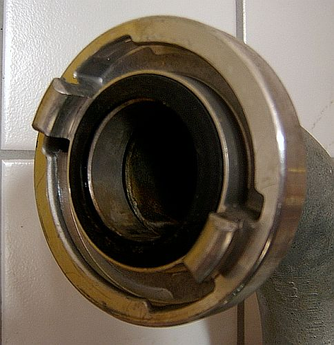 A Storz coupling. Quelle: Eigenes Foto vom 20.3.2004 Fotograf oder Zeichner: Karl Gruber Lizenzstatus: GNU FDL oder Public Domain